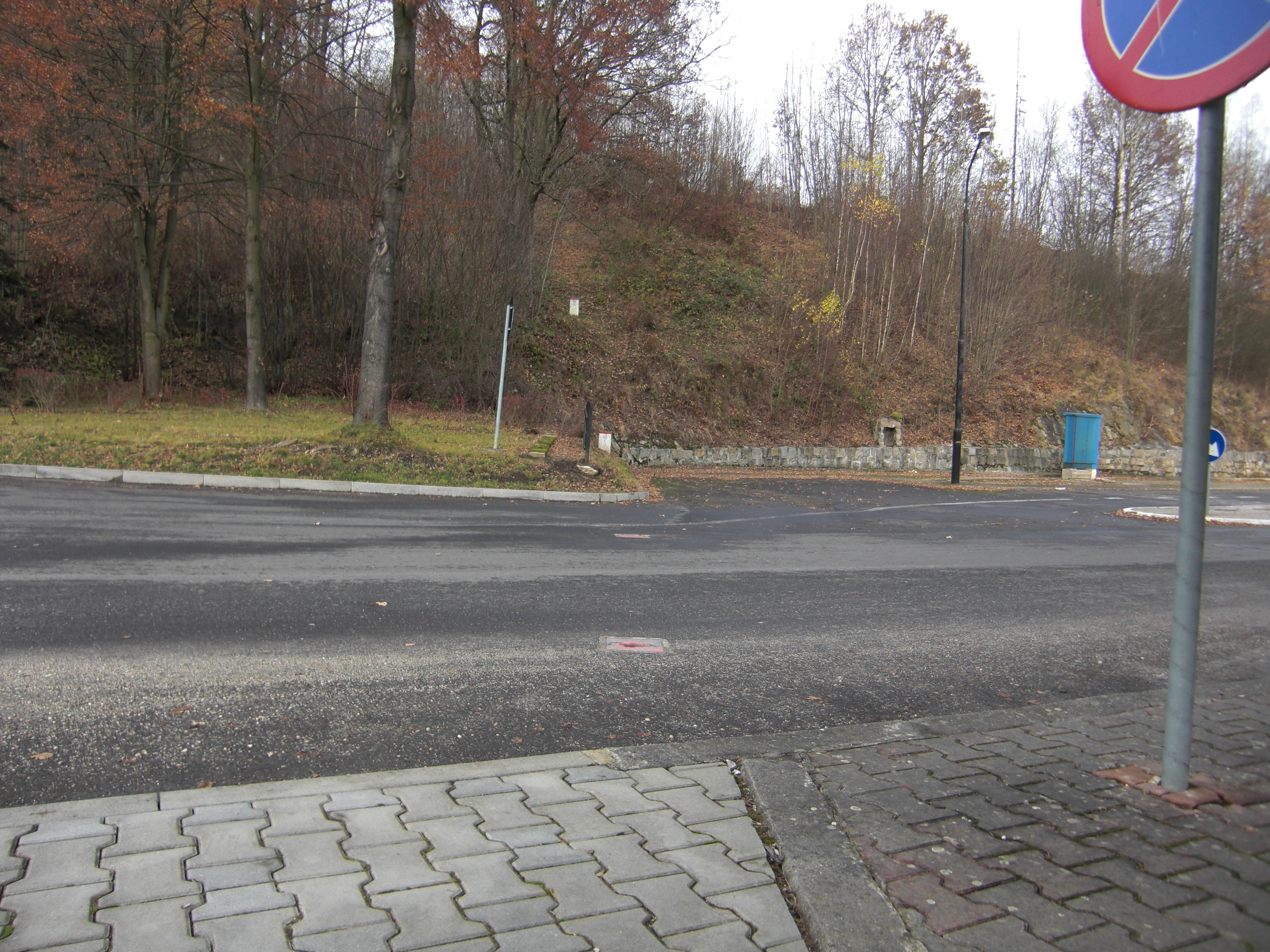 Border